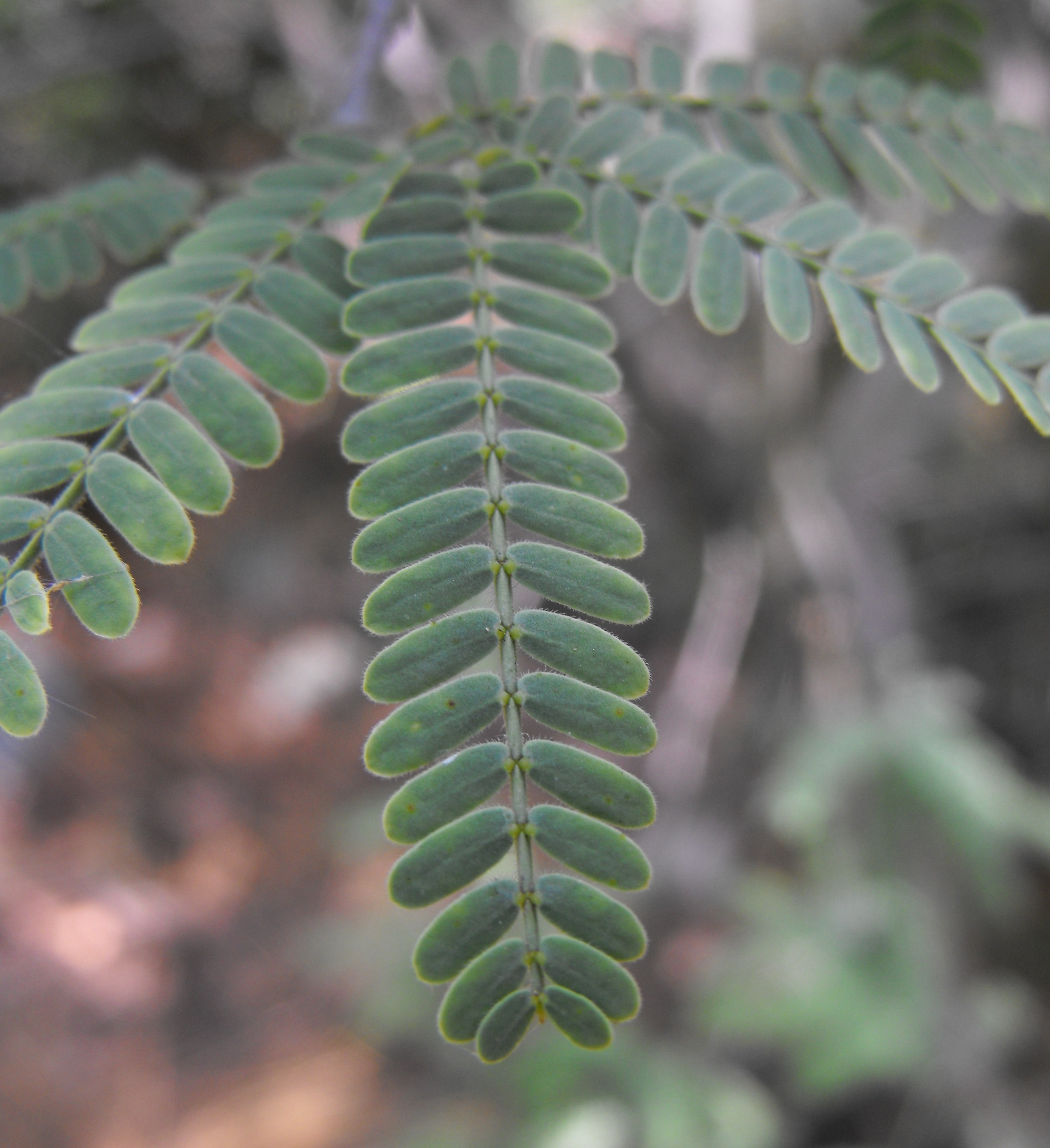 Prosopis chilensis. At Descanso Gardens in La Cañada Flintridge, Southern California. Identified by sign.